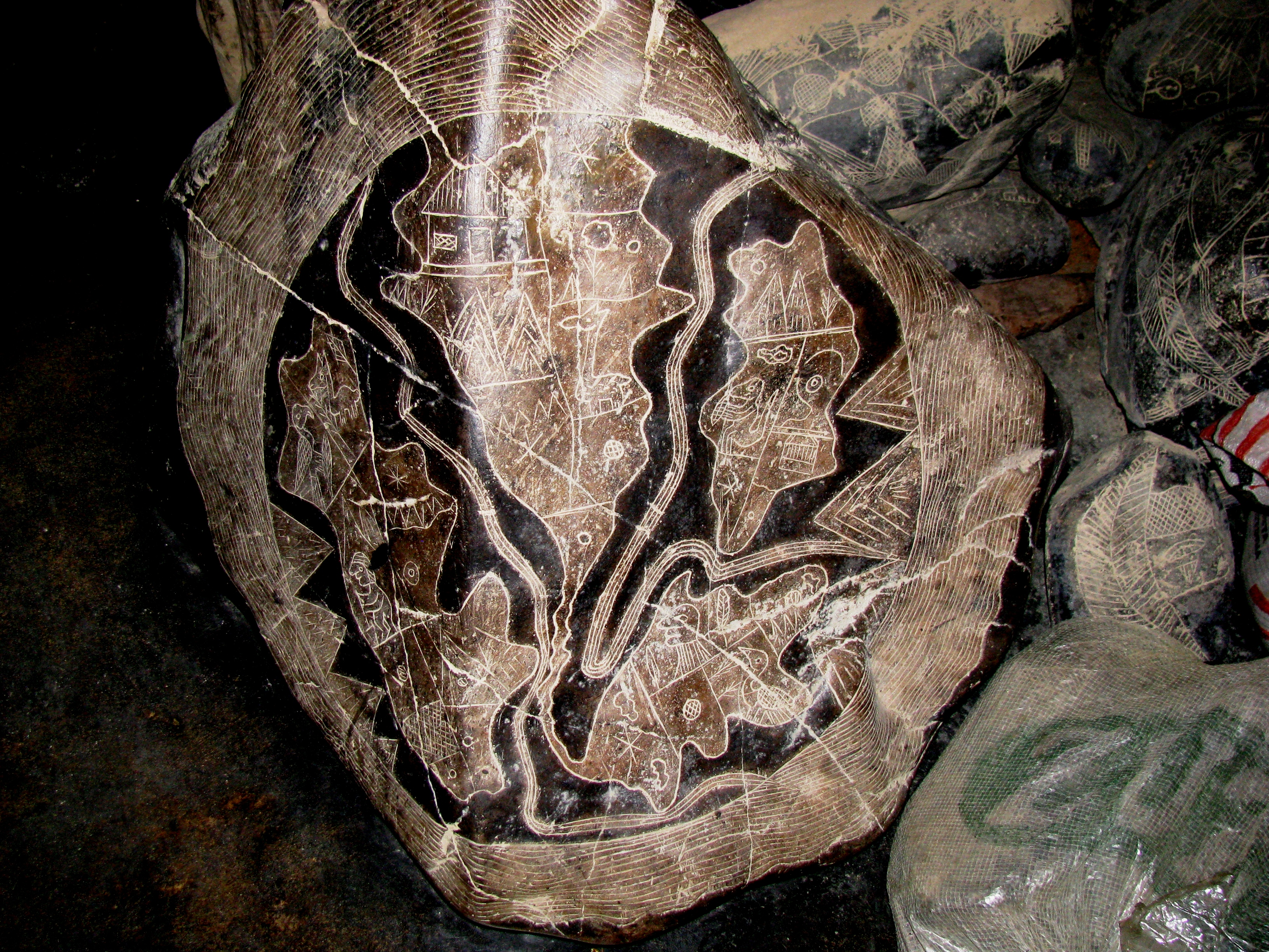 Ica stones